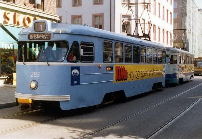 Tram 283 type SM91 in Bogstadveien